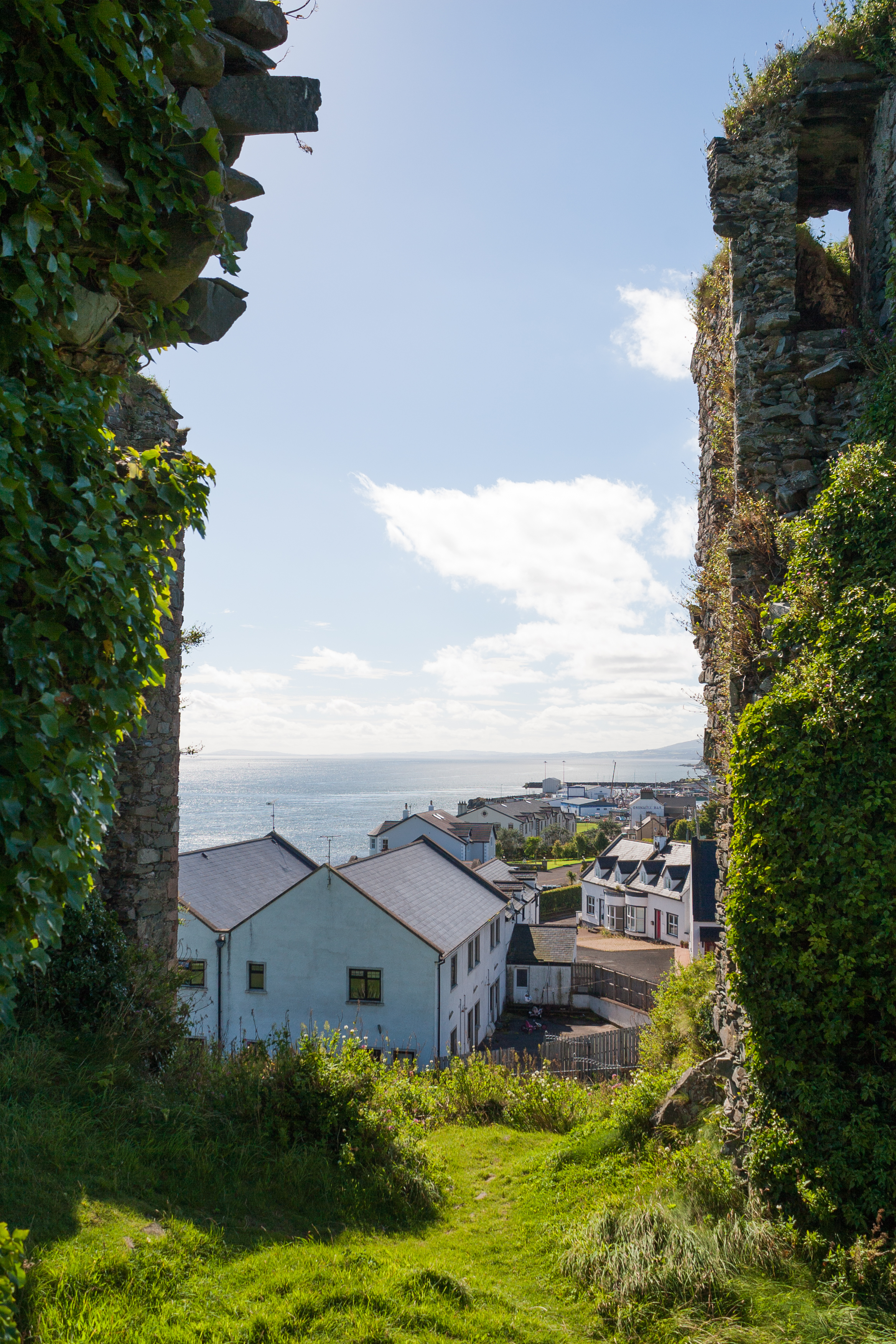 View from the castle down to Greencastle town and Lough Foyle, looking west.